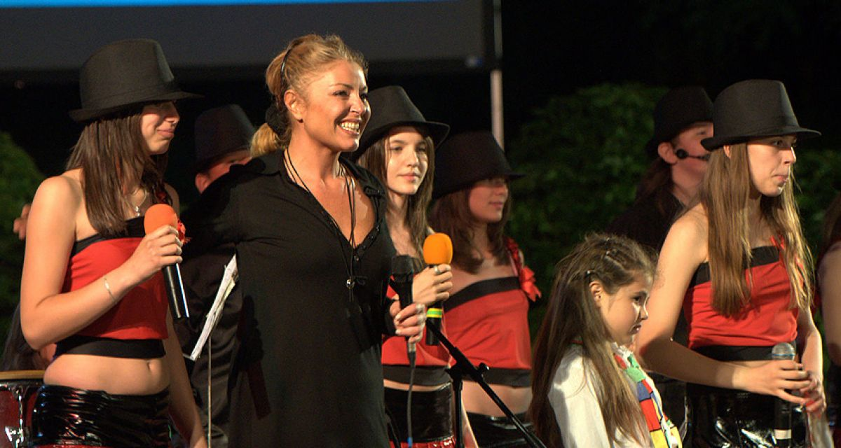 Dobromir Slavchev - Generation Project